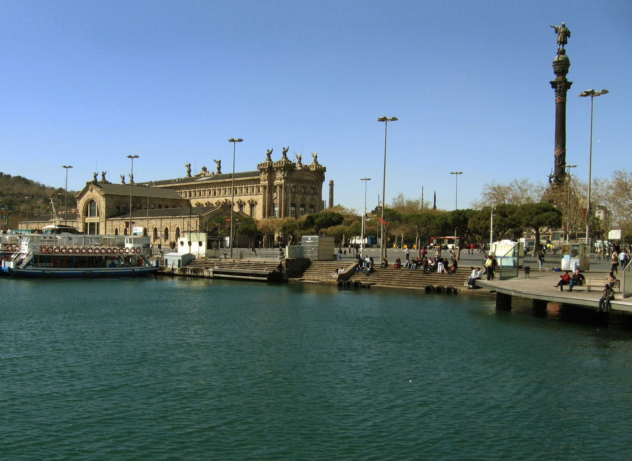 Port Vell quayside, Barcelona. From left to right: sightseeing boat Las Golondrinas, Customs House, Columbus monument.